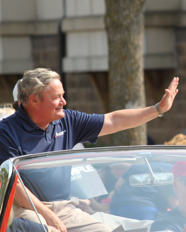 Jack Dalrymple waves to voters at the West Fest parade in West Fargo, North Dakota, on 15 September 2012.